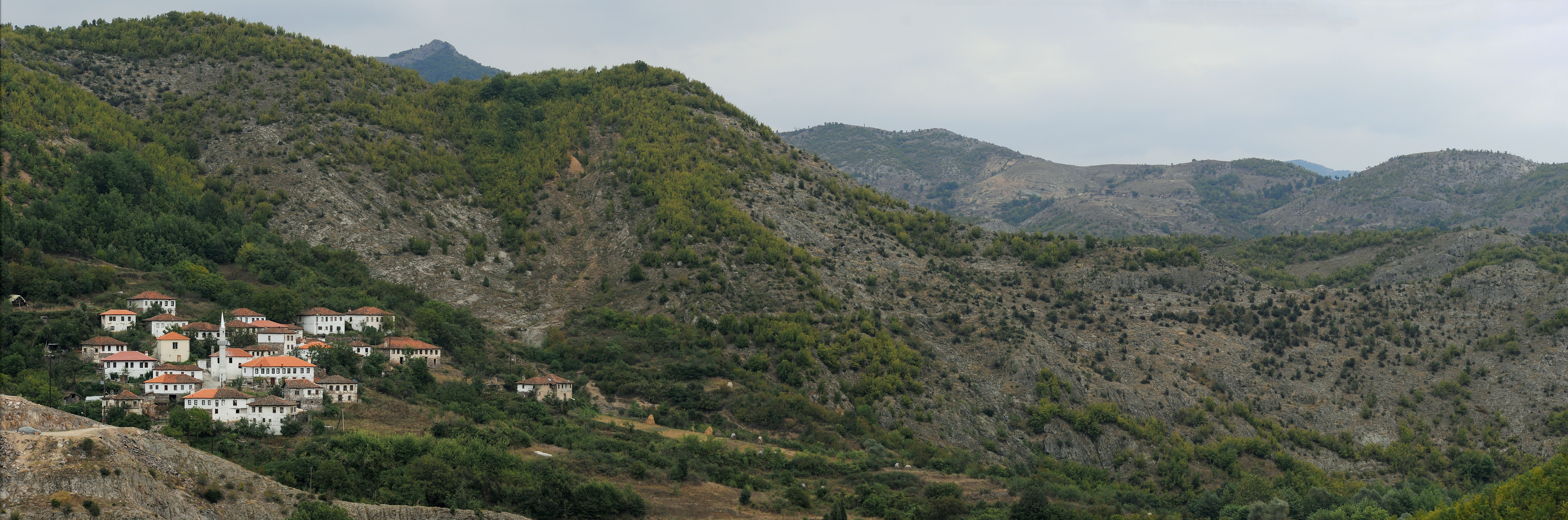 Kotani village - panorama, Xanthi Prefecture, Thrace, Greece.